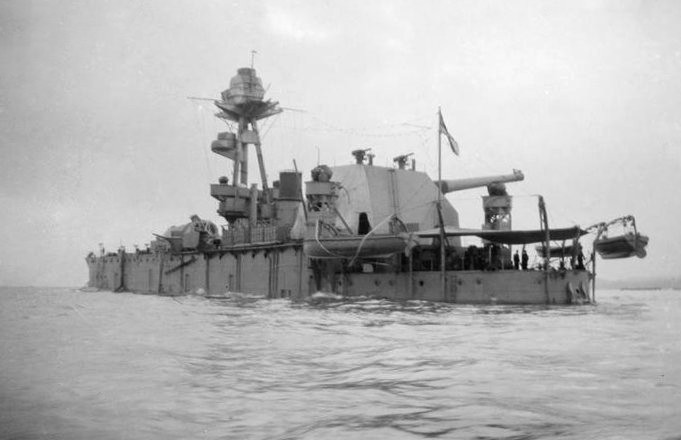 The Surrender of the German High Seas Fleet, November 1918 Royal Navy monitor HMS LORD CLIVE in the North Sea.